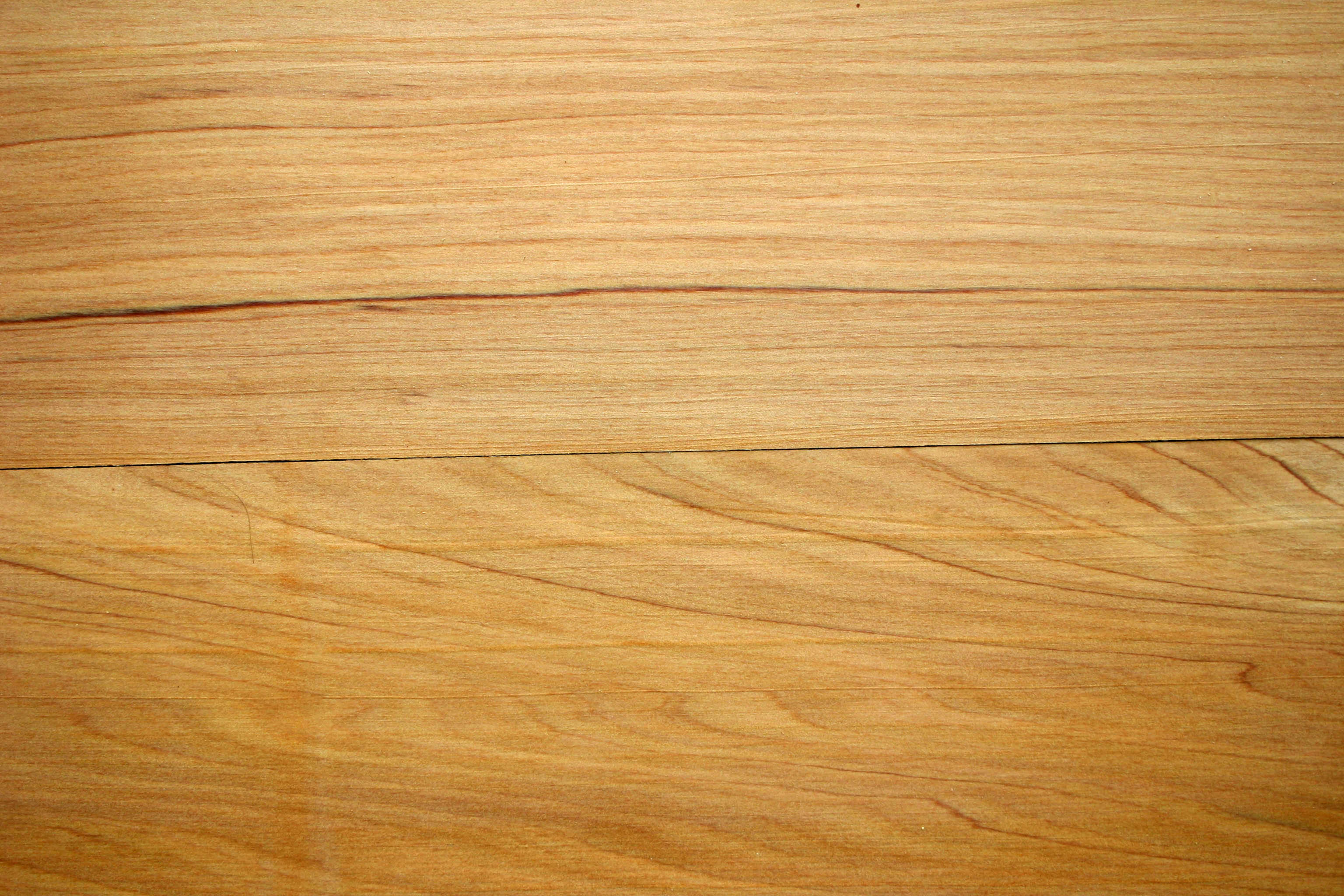 Two small planks of Widdringtonia whytei Rendle